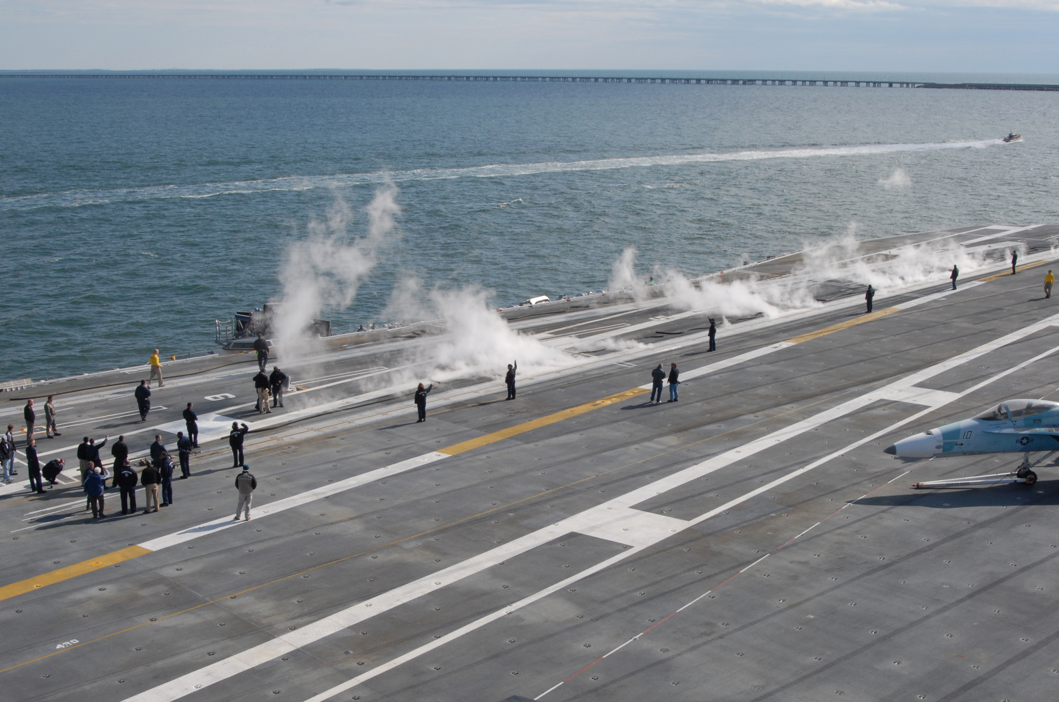 ATLANTIC OCEAN (April 7, 2009) Sailors assigned to the air department of the aircraft carrier USS George H.W. Bush (CVN 77) test the ship's catapult systems during acceptance trials. (U.S. Navy Photo by Mass Communication Specialist 2nd Class Jennifer L. Jaqua/Released)